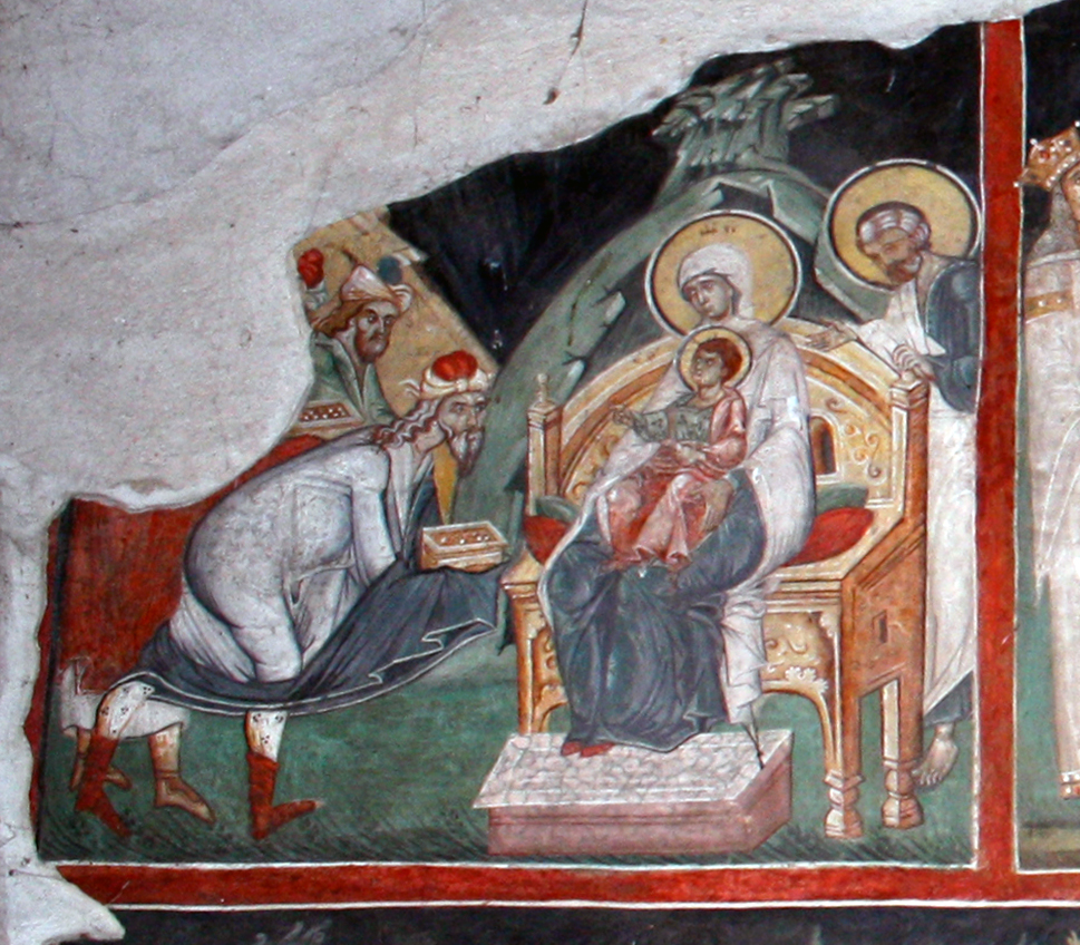 Fragment from 'Adoration of the Magi' Medieval fresco from Bulgaria